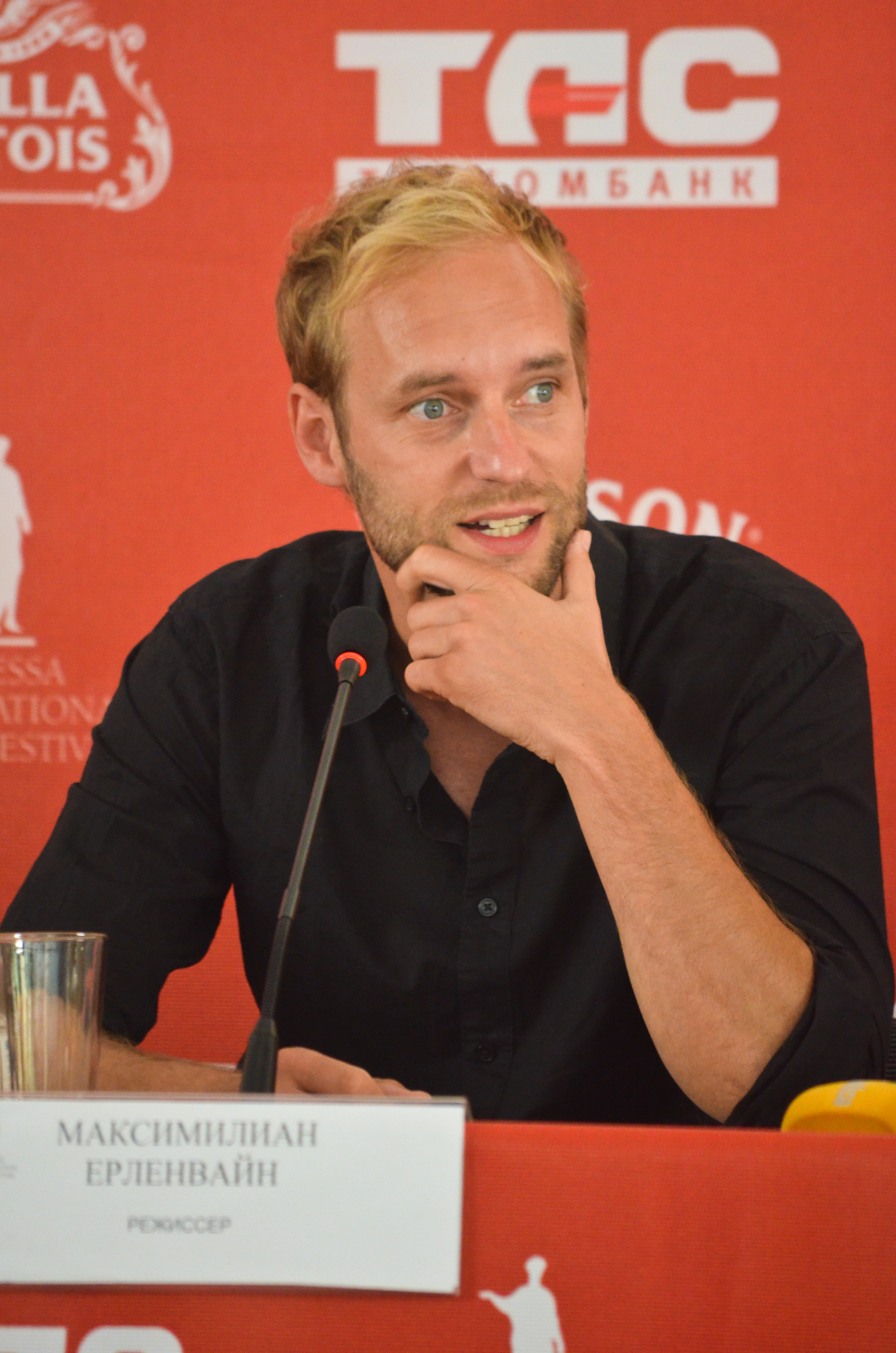 Maximilian Erlenwein at the 5th Odessa International Film Festival.